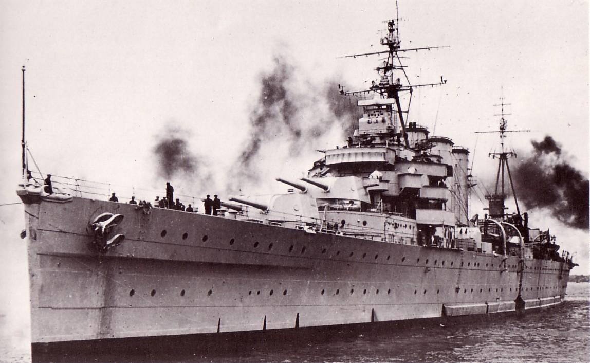 HMAS Australia (D84) in 1946